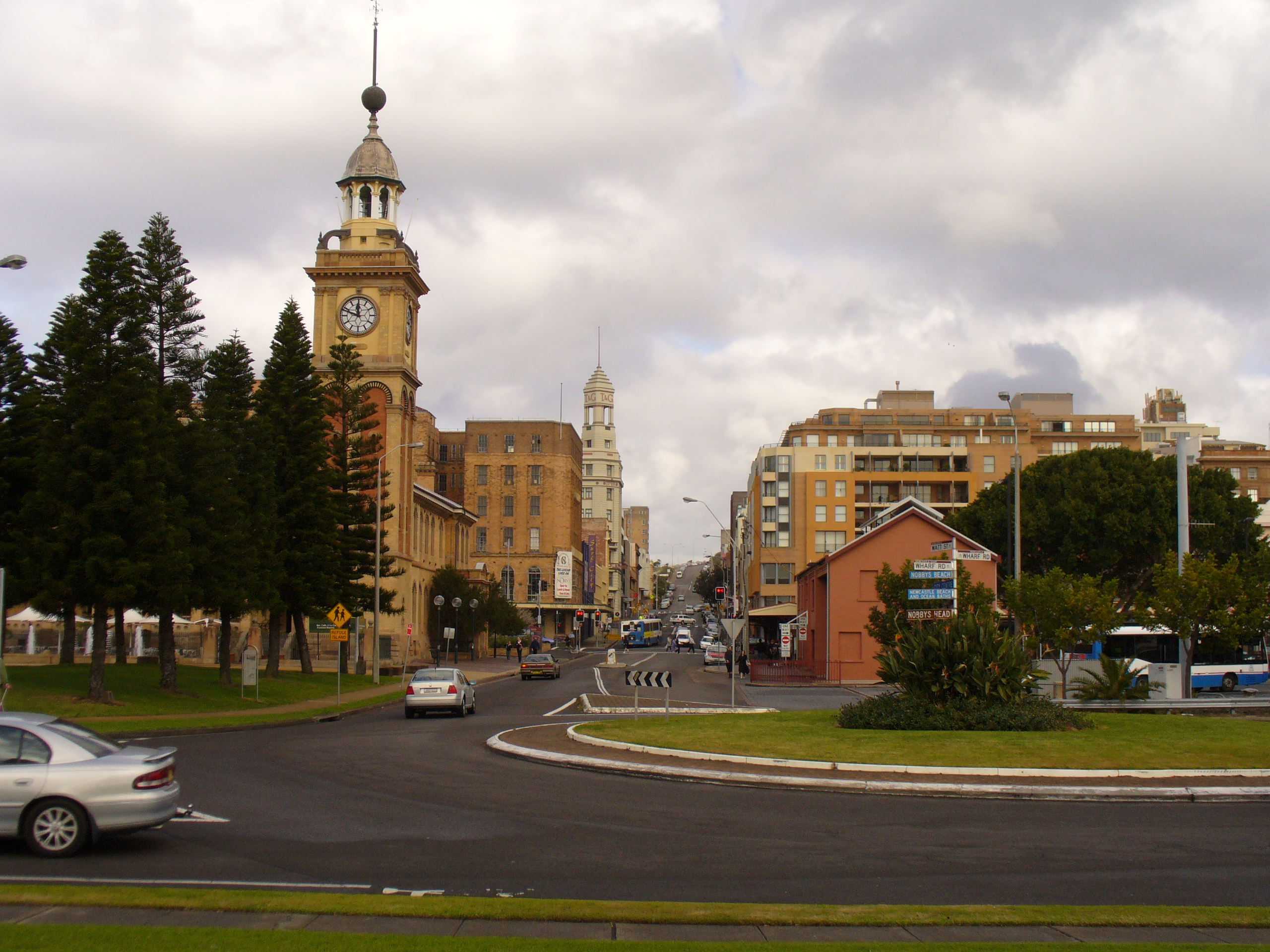 Newcastle CBD, New South Wales, Australia - Watt Street looking south from Harbour foreshore. Historic Customs House on left, Newcastle railway station on right